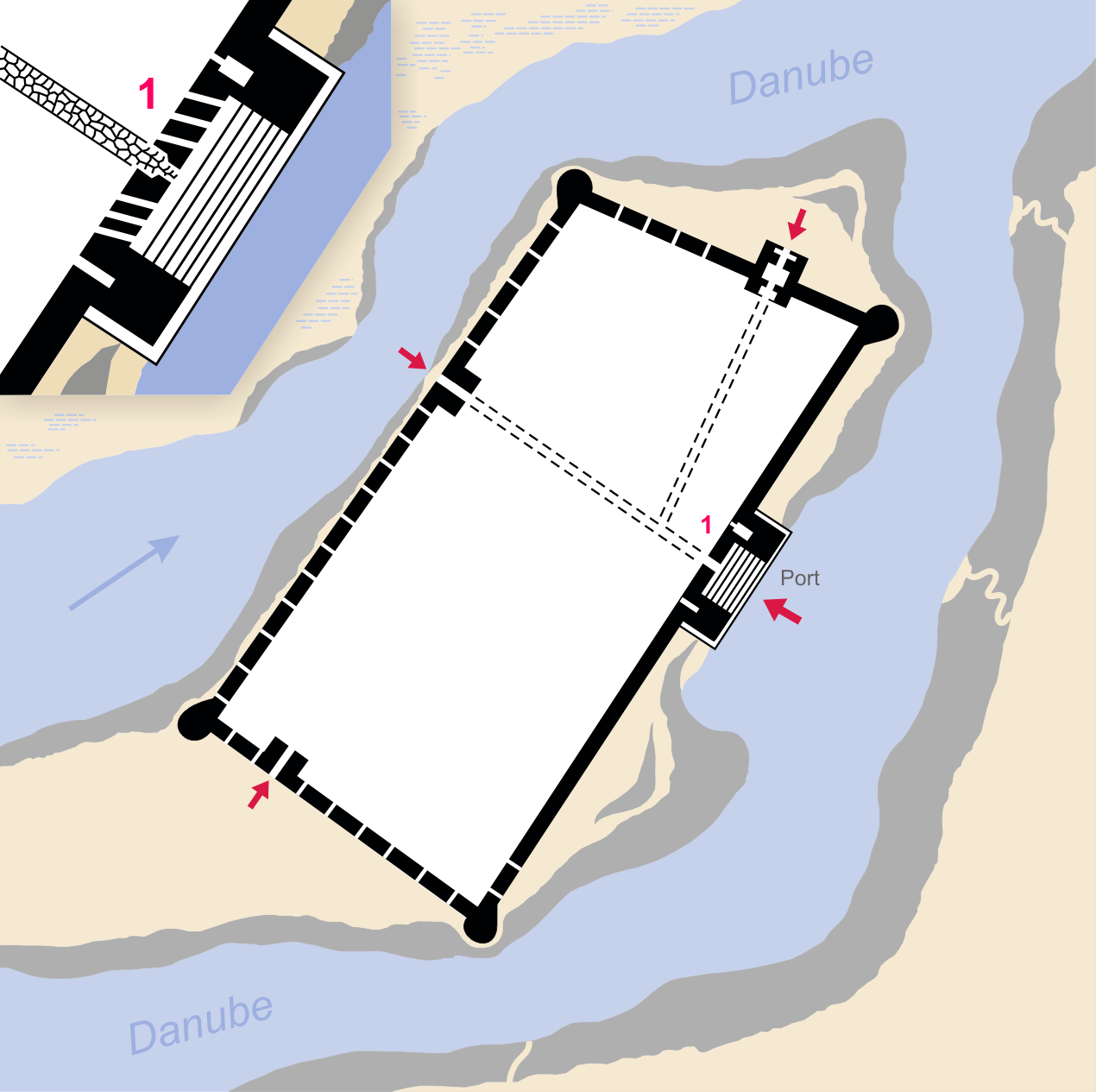 Plan of the medieval Bulgarian fortress on the island Ostrov (Păcuiul lui Soare), Danube, Romania.